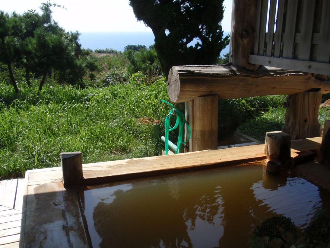 Michinoku Onsen in Fukaura, Aomori